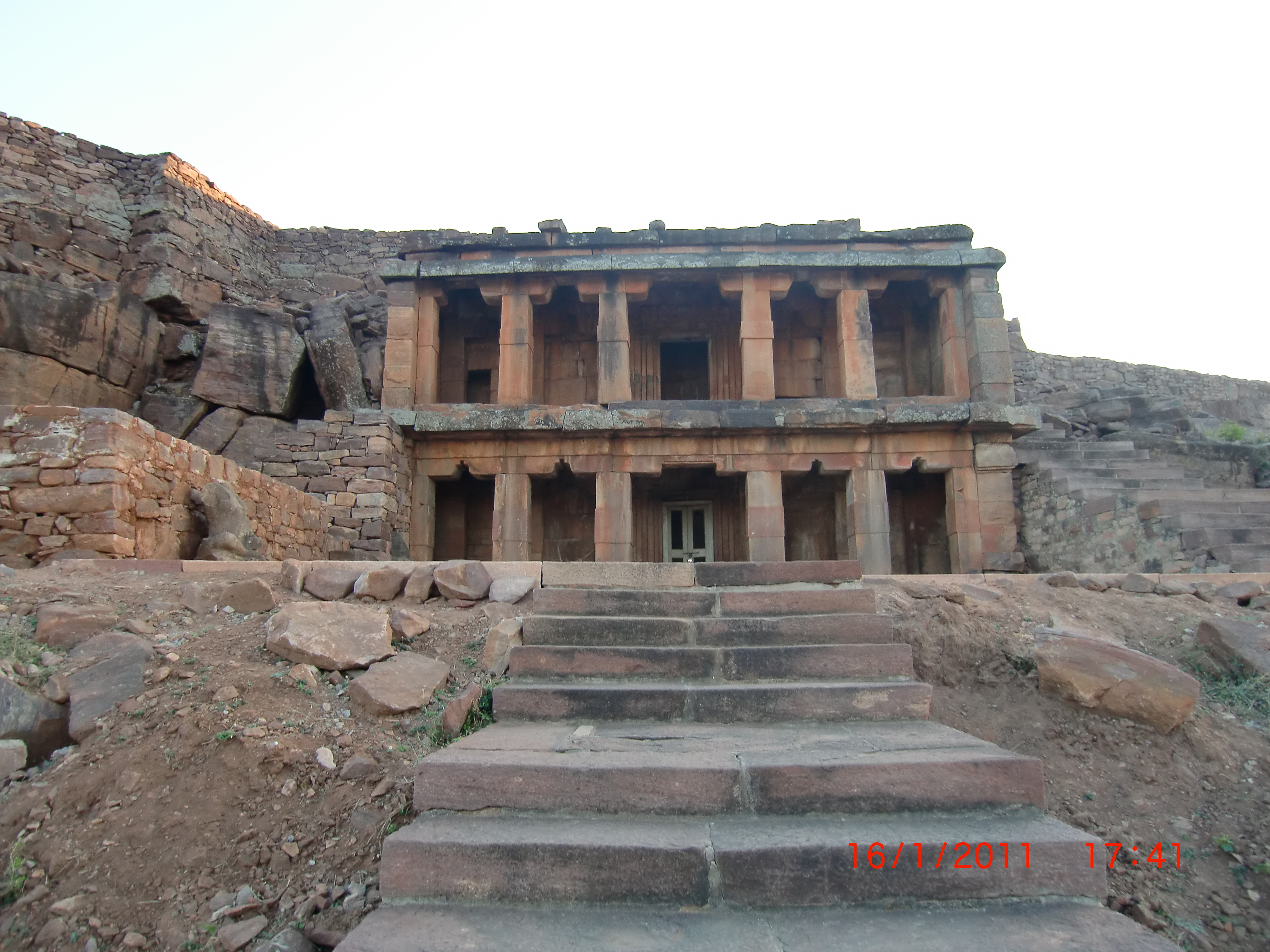 Two-story Buddhist temple Aihole